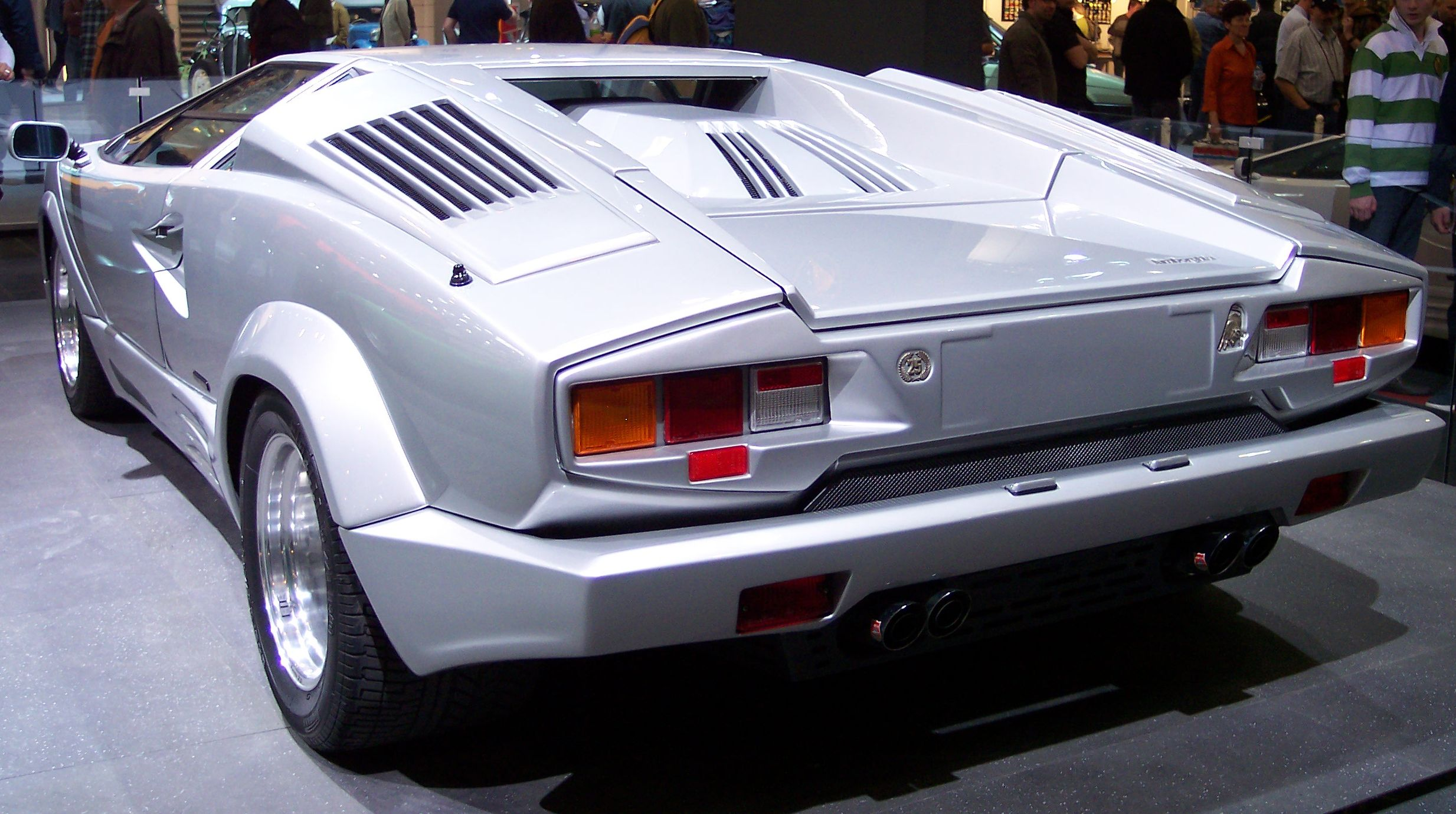 Lamborghini Countach